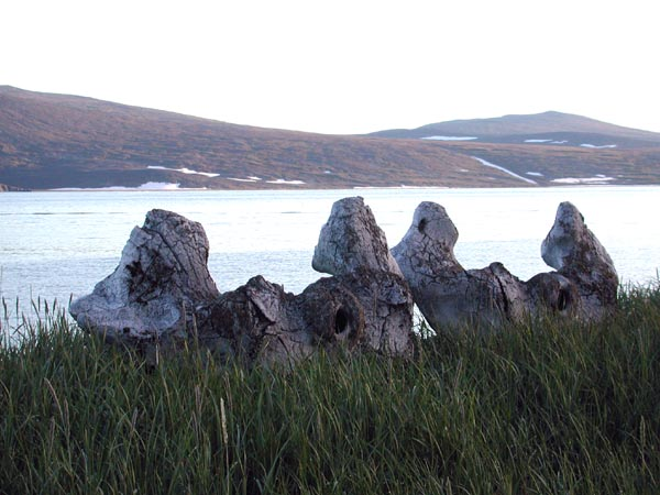 Whale bones, Whale Bone Alley, Yttygran Island